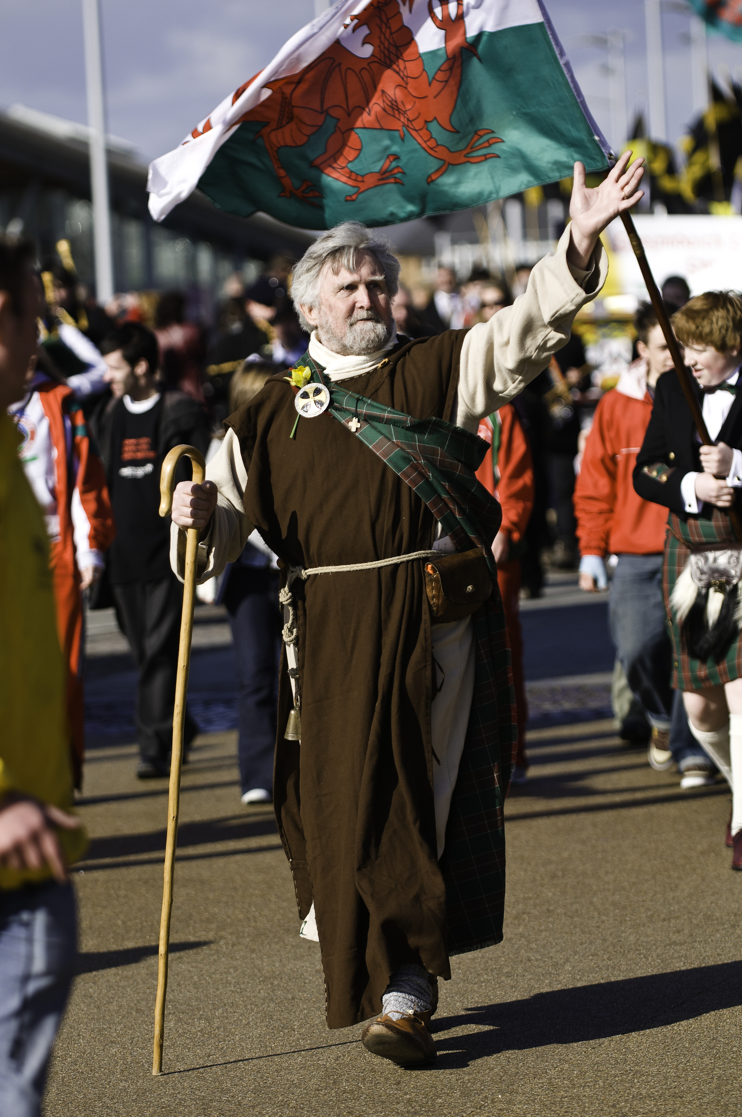 St David's Day Celebration, Cardiff Bay, March 1st 2009